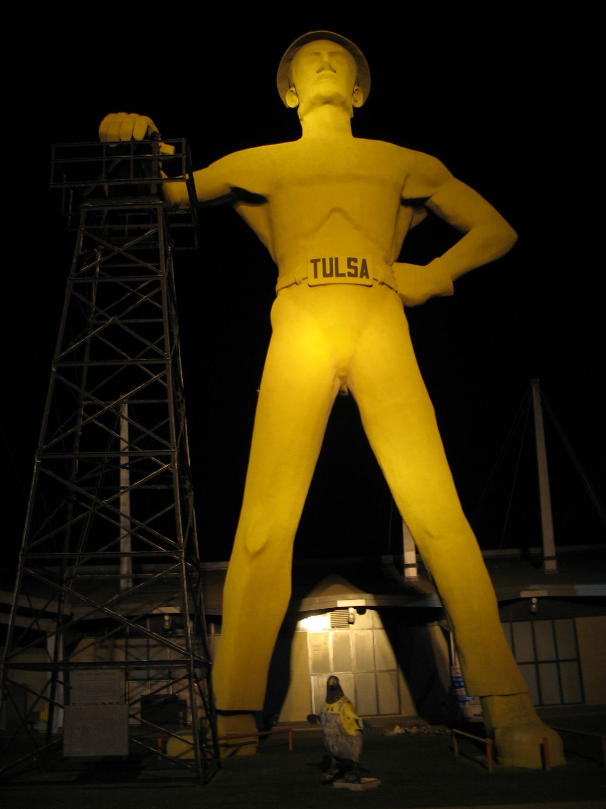 This picture was taken by Greg McKinney of Tulsa, OK, on Saturday, April 21, 2006.